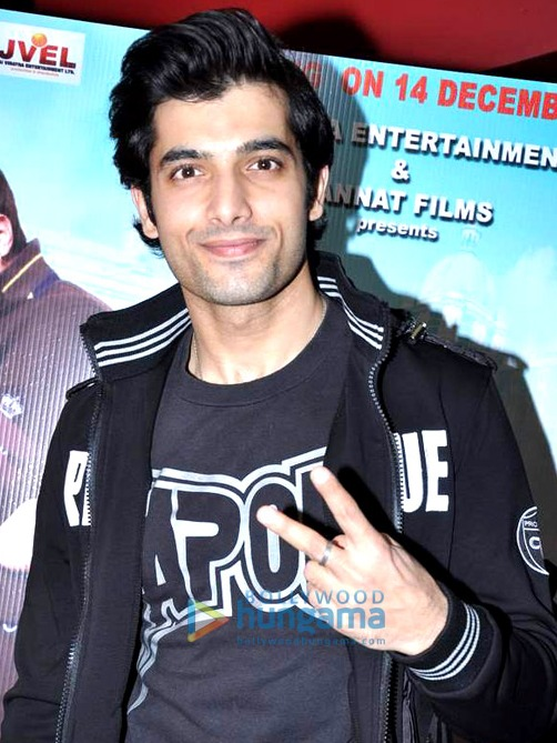 Sharad Malhotra at audio release of Four Two Ka One